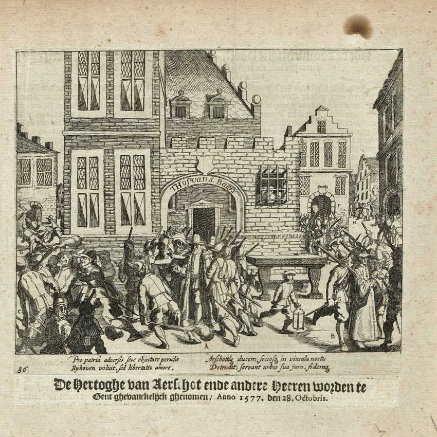 Print from 'The Wars of Nassau' by G. Baudartius, published in Amsterdam by M. Colin de Thovoyon in 1616. Subject: Philipe de Croÿ, Duke of Aarschot and other nobles are taken prisoner in the Court of St. Baeffs in Gent on 28 October 1577.